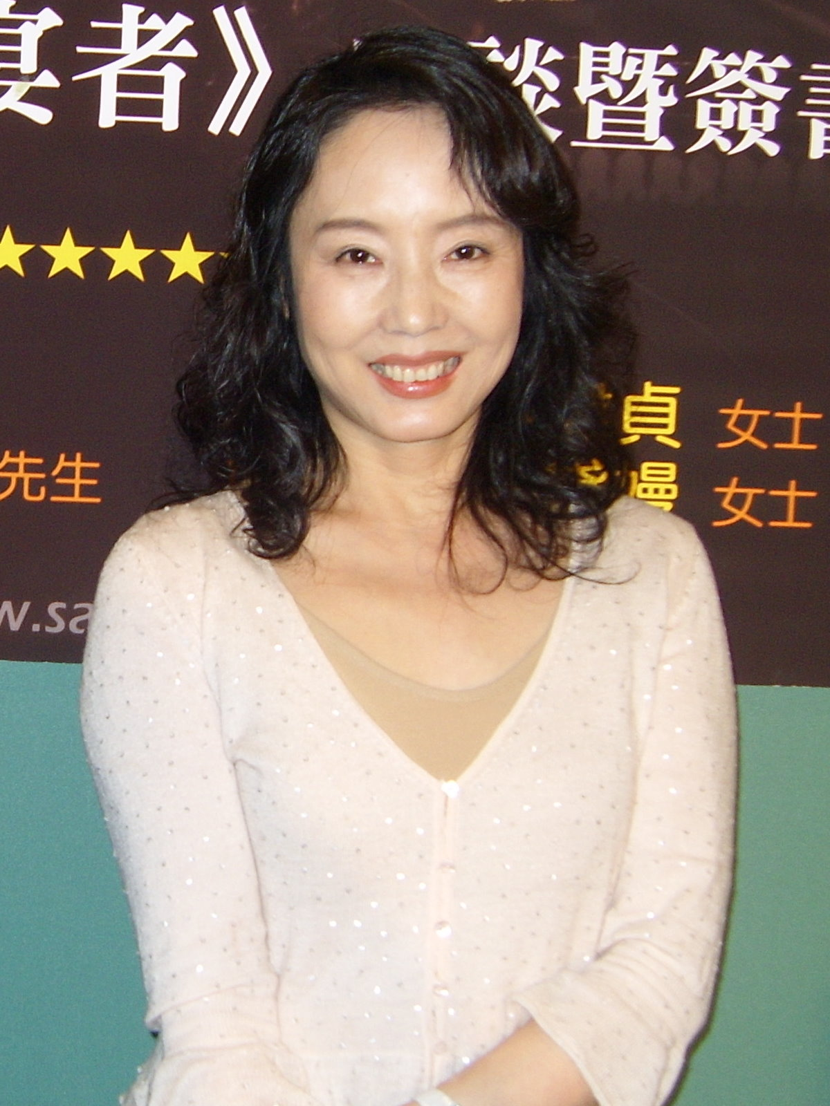 2008 Taipei International Book Exhibition - Theme Square: Geling Yen, original English language author of "The Banquet Bug".